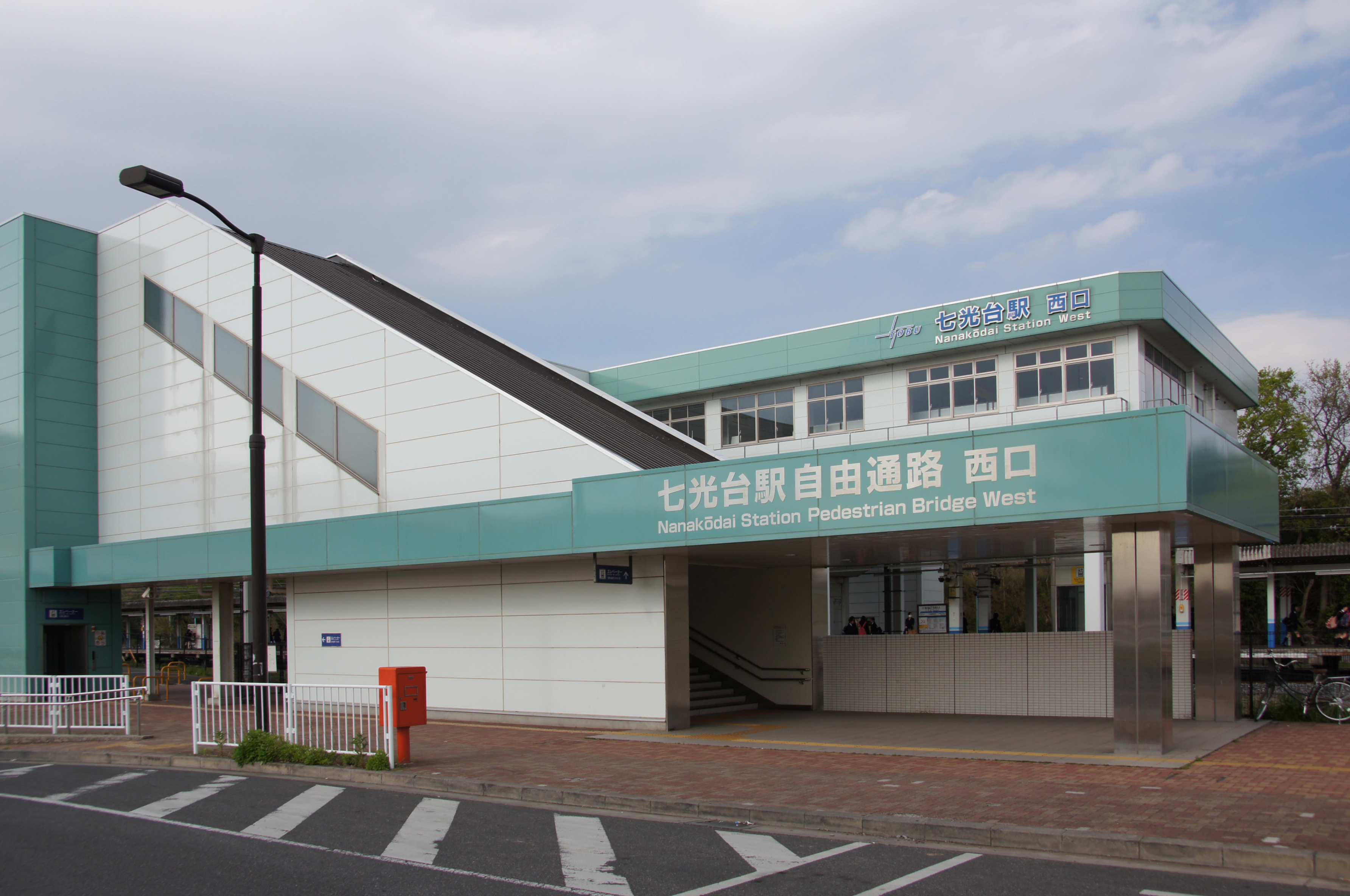 West entrance of Nanakodai Station on the Tobu Noda Line